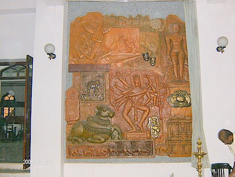 Artists from Karnataka did did this